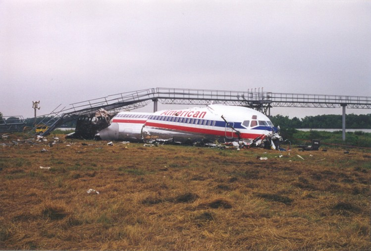 AA 1420 after overrunning the runway.